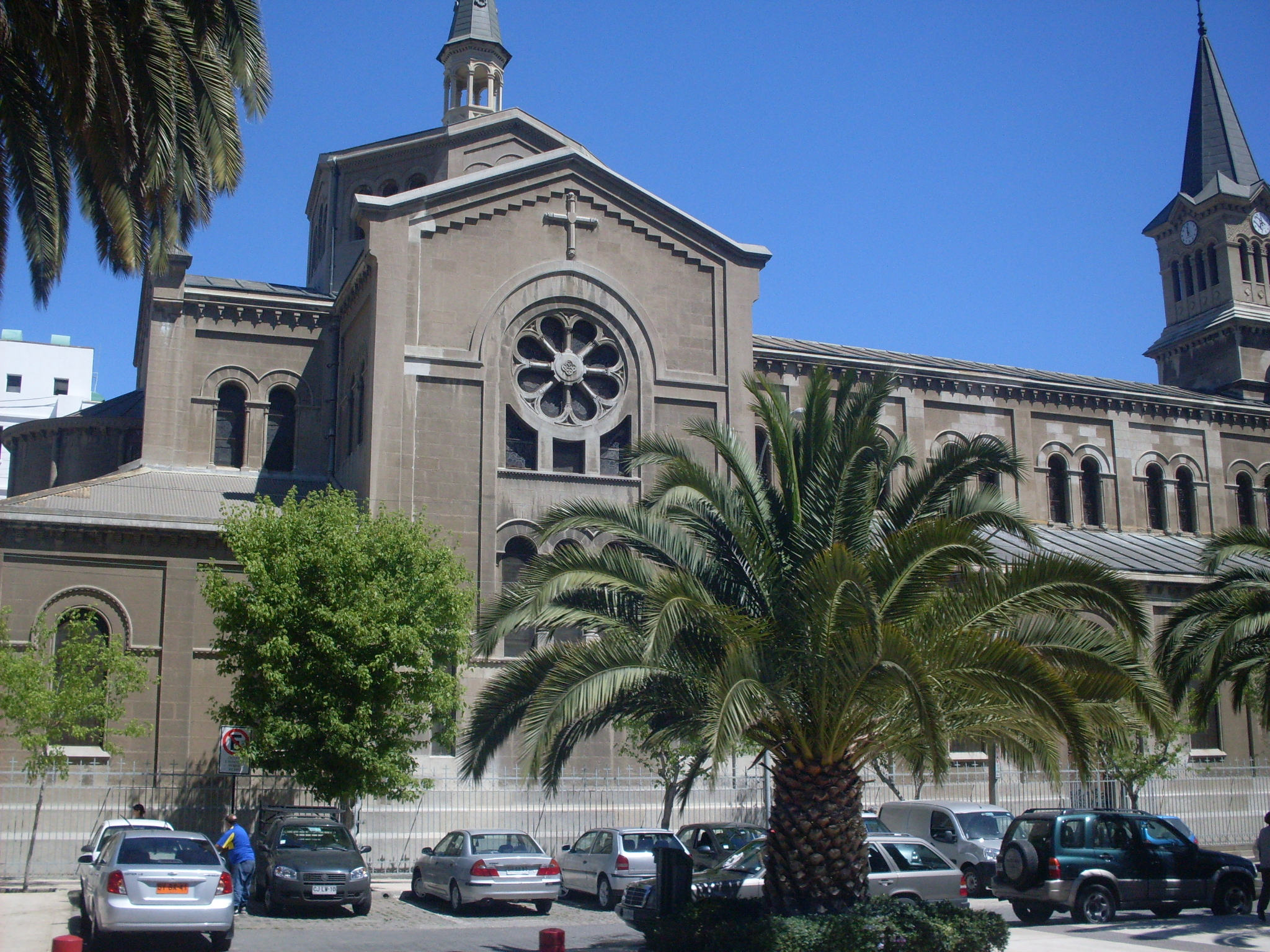 Side view of the Parish of Viña del Mar